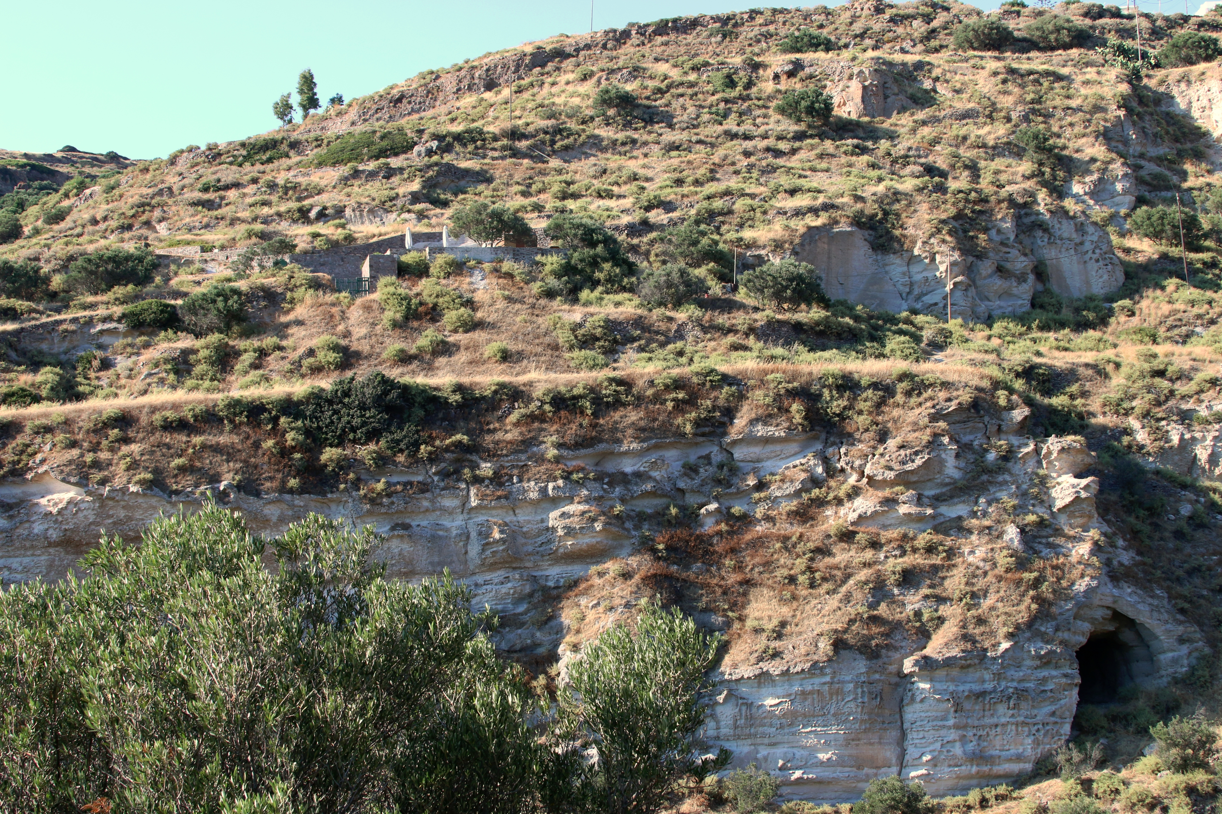 Left on the slope is entrance to the catacombs of Milos, bottom right of the natural cave. View from the road froma Klima to Trypiti.